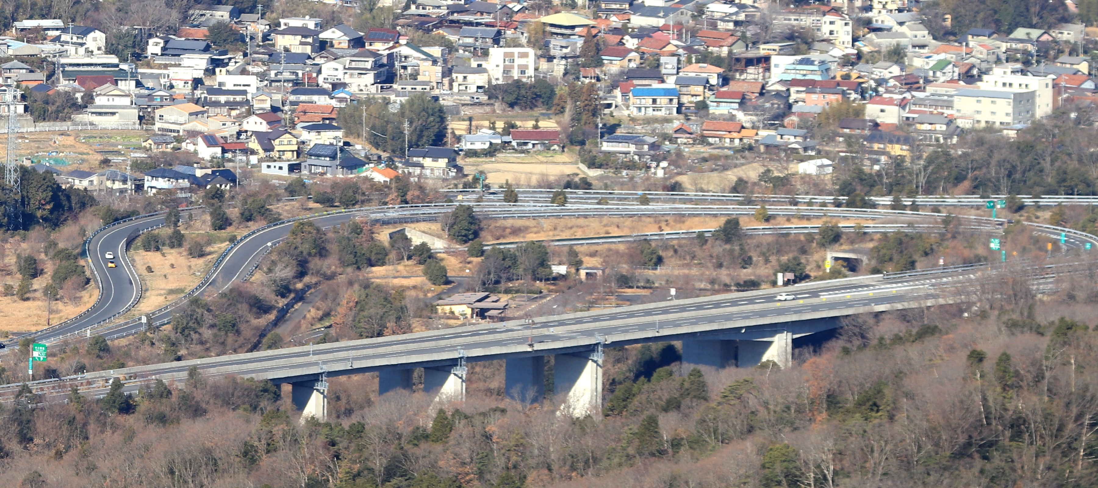 Seto-Akazu Parking Area on Tōkai-Kanjō Expressway seen from Mount Sanage in Seto, Aichi Prefecture, Japan. Canon EOS Kiss X9